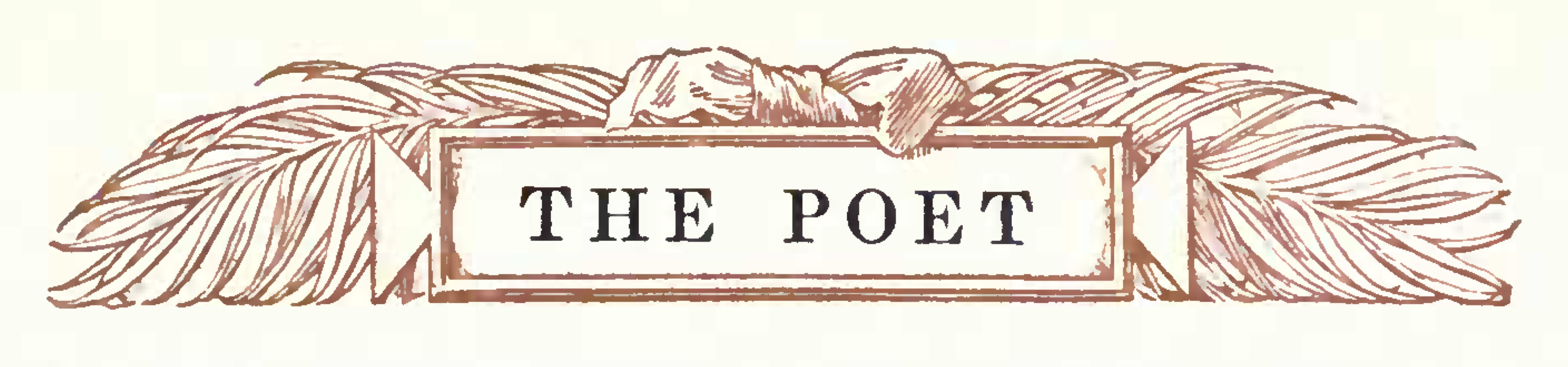 A page decoration created by Dwiggins in 1914.